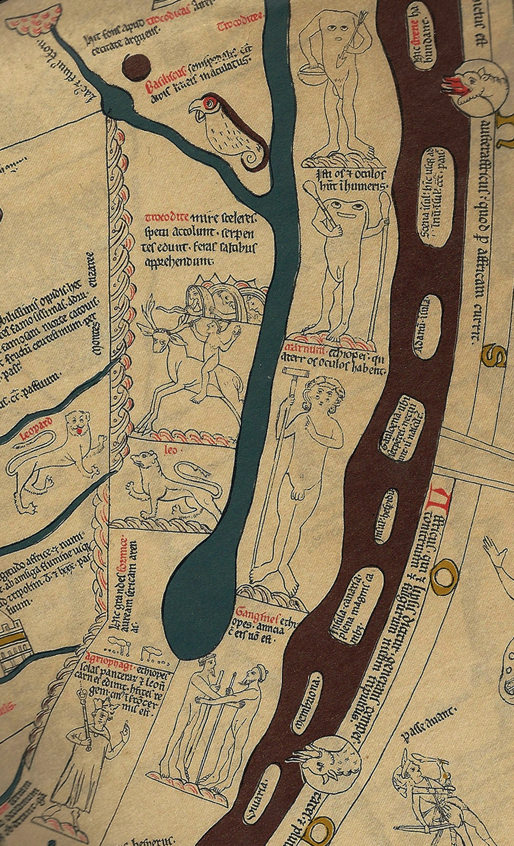 Africa Detail of the Hereford Map of the World, around 1280: South of the Nile River dwell strange people: Blemee (Blemyae, Blemmyes) with face in the chest, or at their shoulders (Isidore of Seville admitting these two kinds fo Blemmyae, but Kline guesses the shoulder-type is "Epiphagi"); Marmini Ethiopes (four-eyes), Agriophagi (their king have a single eye), Trocoditee (Troglodytes), Gangines Ethiopes, ; and beasts: basiliscus (basilisk), etc.[1][2]